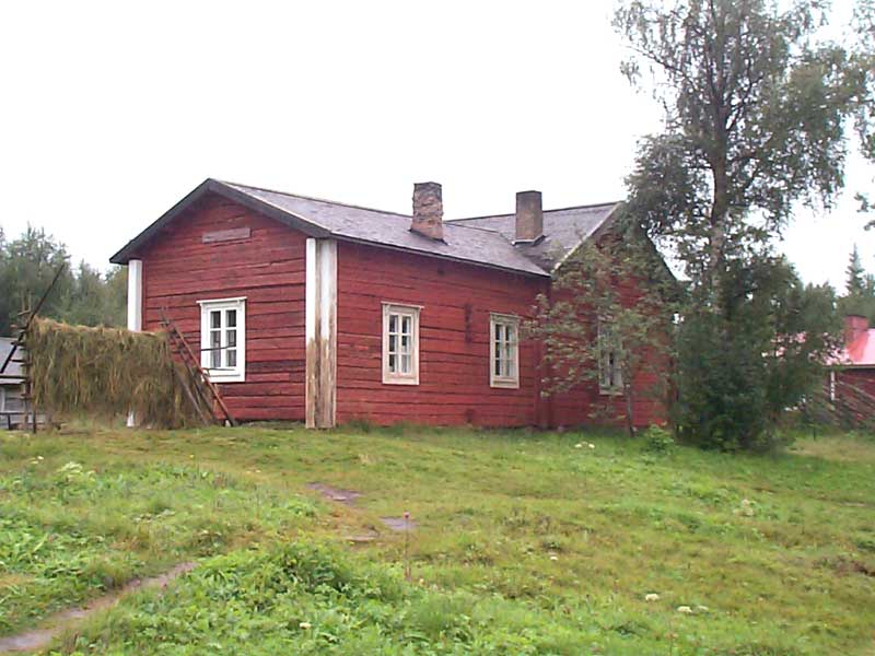 Kallioniemi, childhood home of Kalle Päätalo. Photo taken by Jniemenmaa